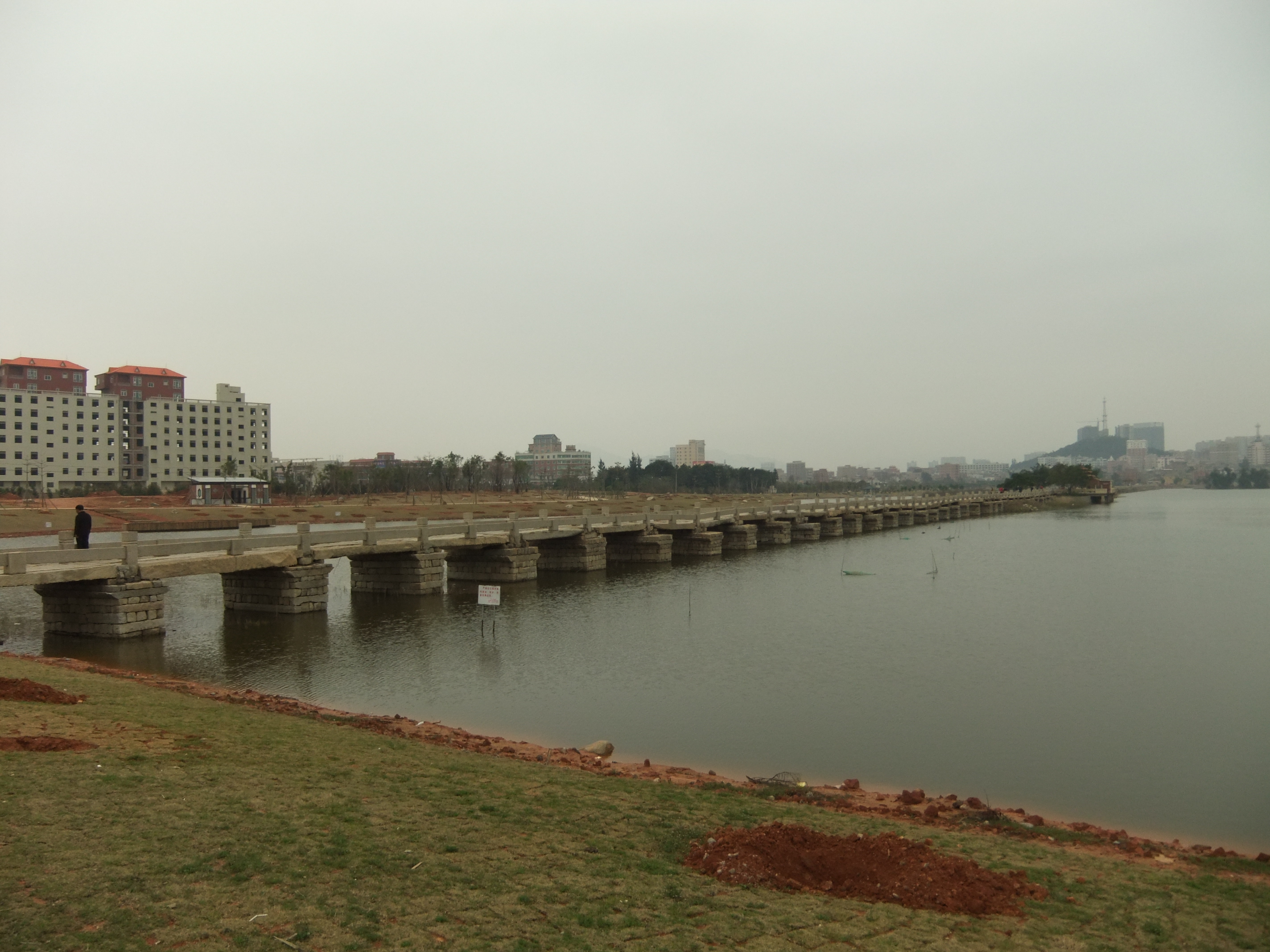 Anping Bridge. Photos taken from a point a bit west of Shuixing Pavilion, probably right where the bridge crosses the main present-day channel of the Shijing River, or a bit farther west (on the Shuitou side of the river).